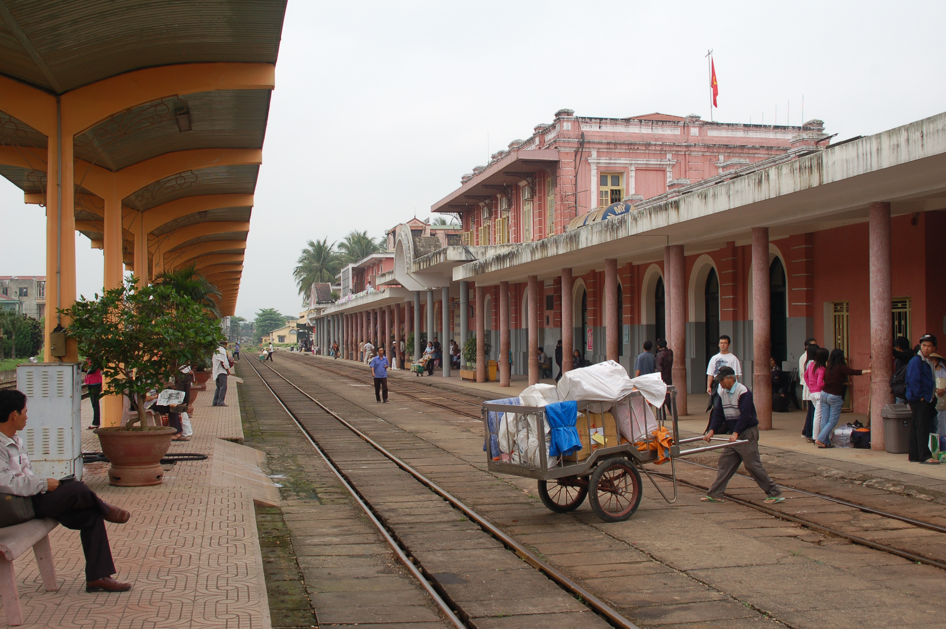 Hue Train Station.